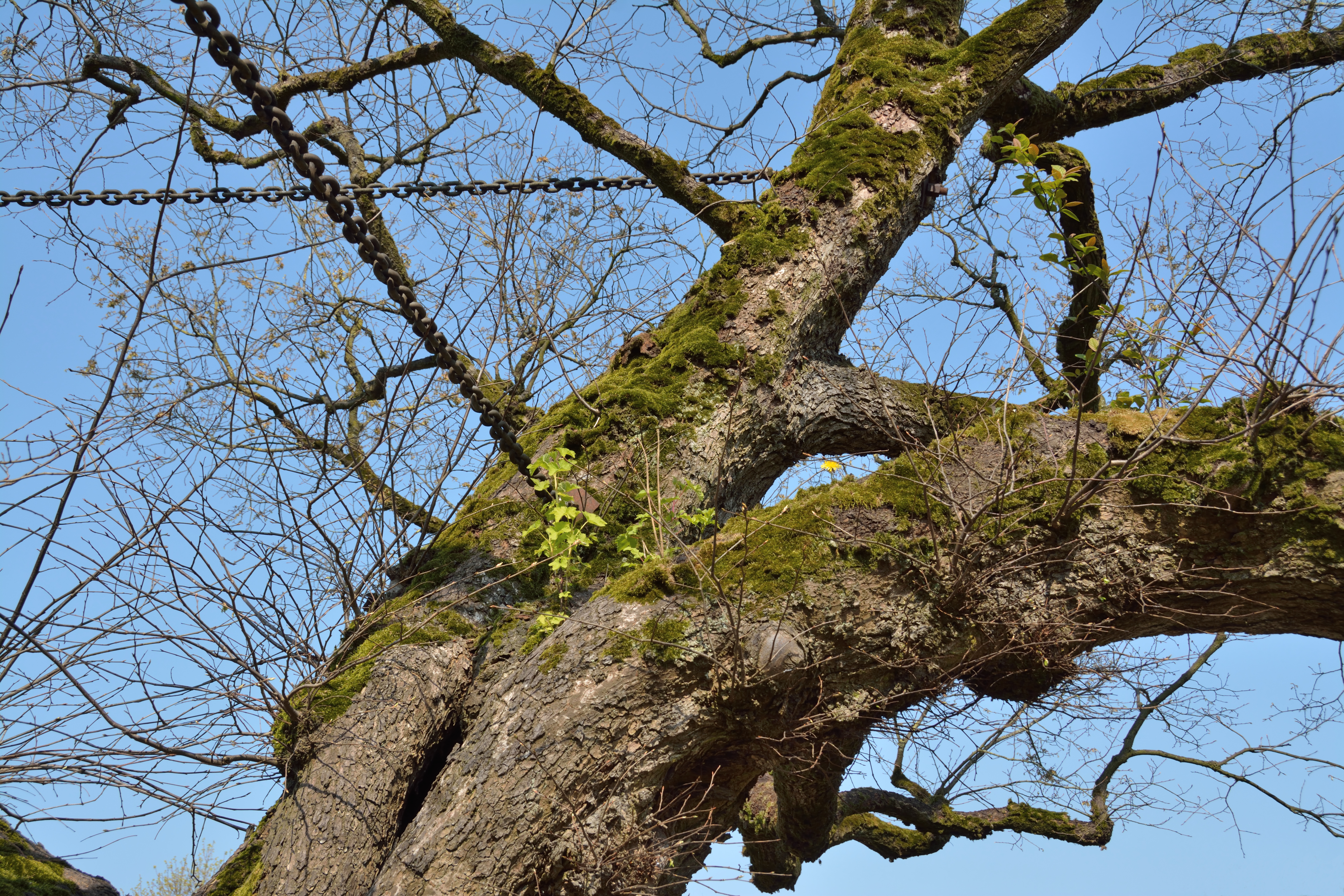 Krogaspe, an old tree at the intersection of Main Street / ring road. To preserve the tree crown steel chains were attached.